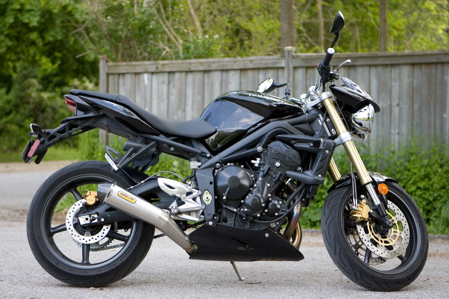 Triumph Street Triple 675